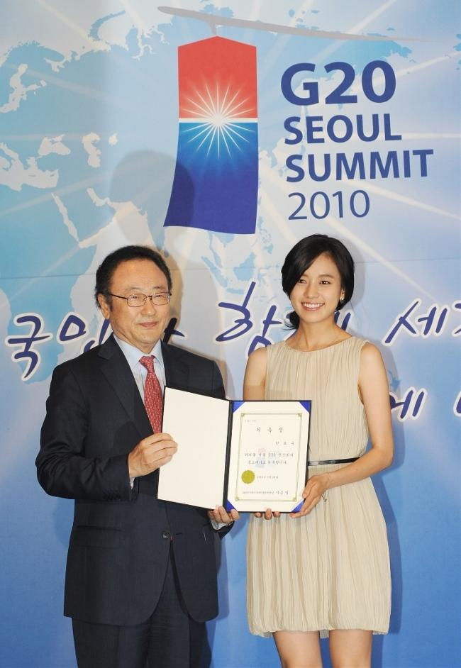 Han Hyo-joo, a well-known actress, has been chosen as ambassadors to represent the G20 Seoul Summit.